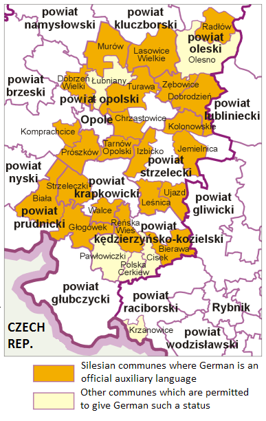 German language in Silesia (as of 9 June 2009). Orange: Silesian communes where German is an official auxiliary language Yellow: others communes which are permitted to give German such a status